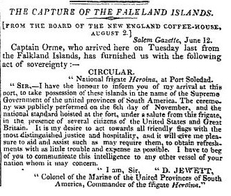 Cutting from the The Times of 3 August 1821. A story reprinted from the Salem Gazette, which reports a letter given to an American Captain Orme in the Falkland Islands. The circular reports the "Capture of the Falkland Islands" by a Colonel Jewett of the United Provinces of South America. The article originally appeared at the bottom of Page 2 see File:Times-3-august-1821-Falklands.jpg. Article reference: "The Capture Of The Falkland Islands." Times [London, England] 3 Aug. 1821: 2. The Times Digital Archive.